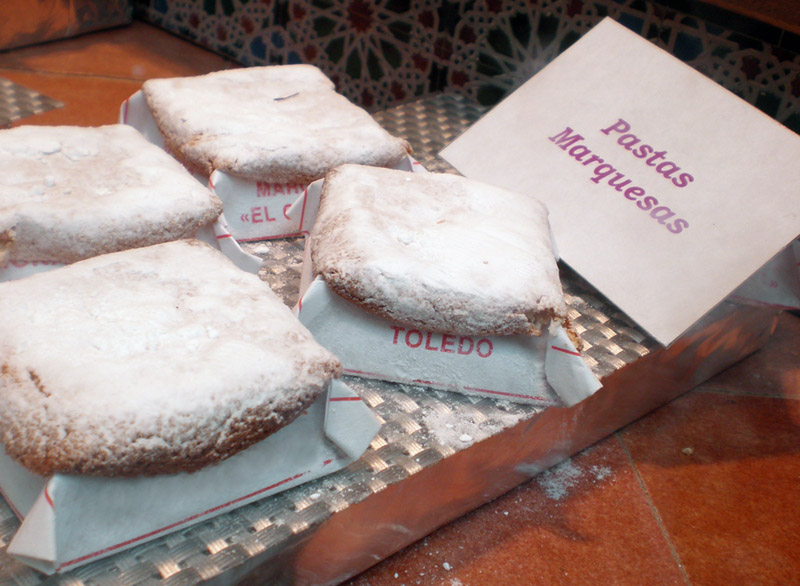 Original spanish "marquesas". Photo taken in Toledo, Spain.